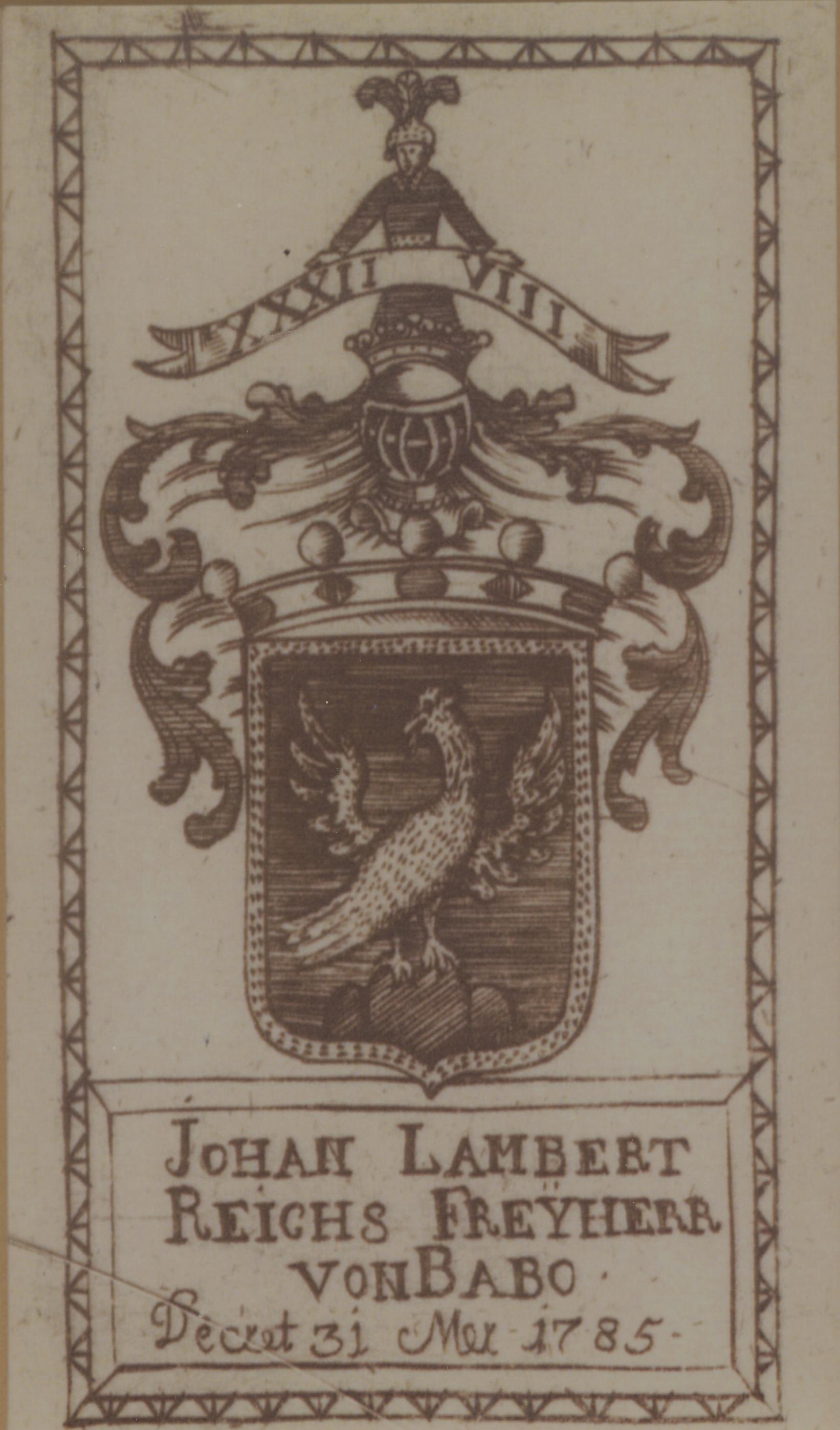 Coat of Arms of the family "von Babo" Interessant ist der Unterschied in der Darstellung des Wappenvogels im ehemaligen Kloster Frauenalb Frauenalb babo wappen